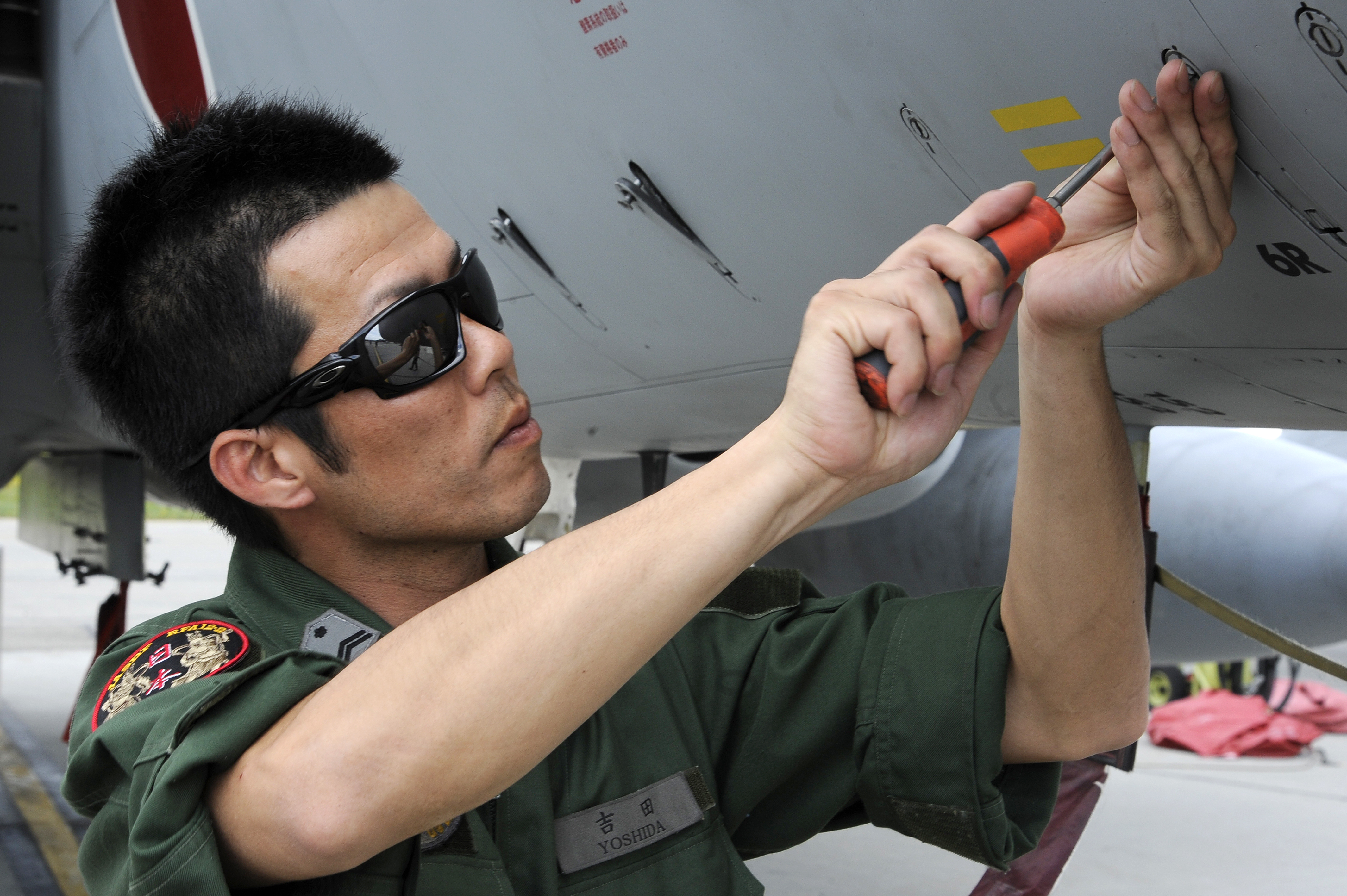 Tech. Sgt. Yuhei Yoshida, Japan Air Self-Defense Force maintainer, performs a preflight inspection on a JASDF F-15J Eagle engine prior to RED FLAG-Alaska 12-2 June 5, 2012, Eielson Air Force Base, Alaska. During RF-A 12-2, maintainers are given the chance to learn from fellow participants to improve overall performances of personnel and assets. (U.S. Air Force photo/Staff Sgt. Jim Araos) ↑ RED FLAG-Alaska ↑ RFA12-2 訓練実施部隊指揮官から礼状 Nikon D3